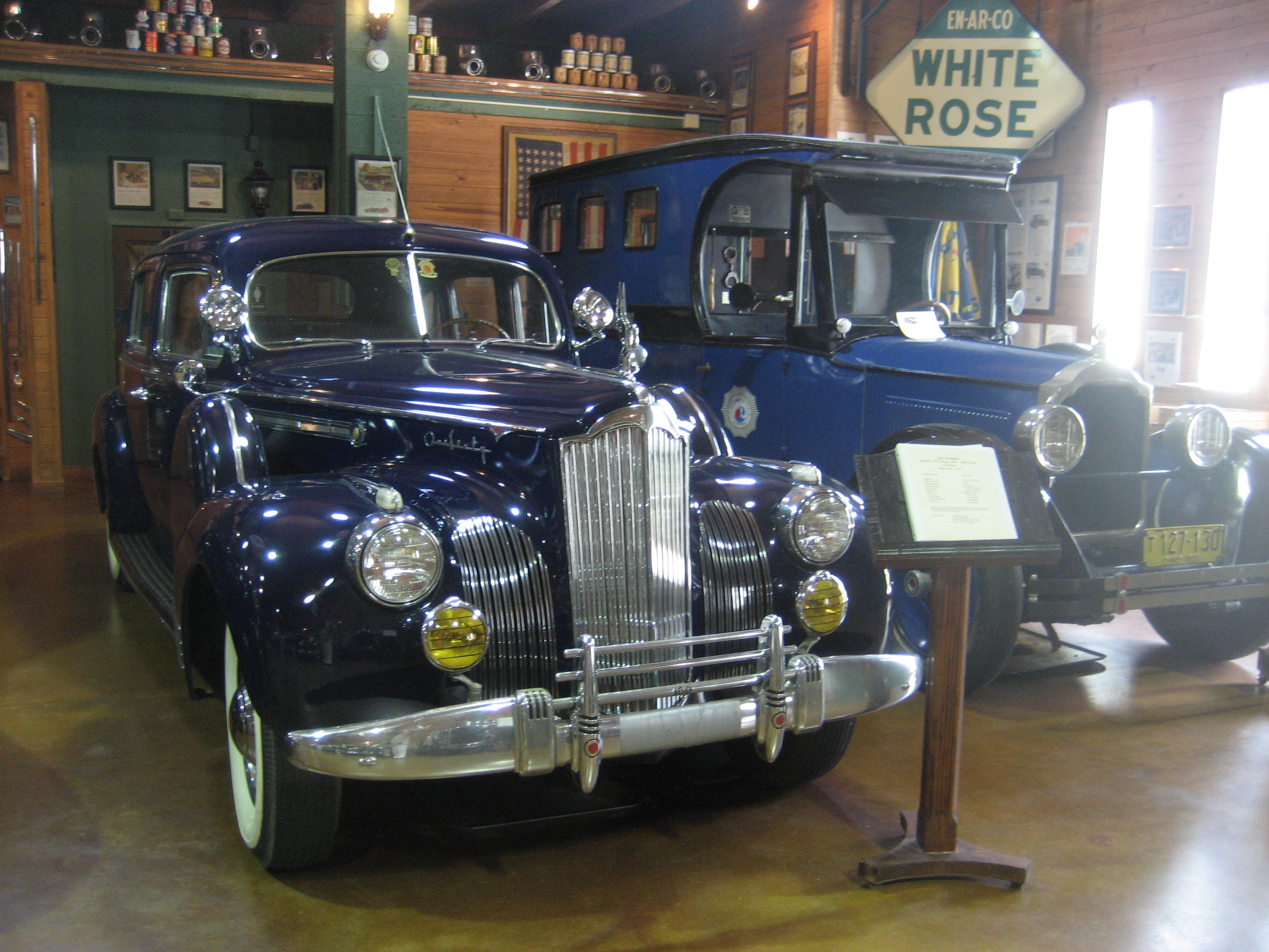 1941 Packard Super Eight One-Sixty ( 19th series; model 1905) Touring Limousine (left) and 1925 Packard Six (3rd series; model 333) Police Paddy Wagon, "C" Bodied, custom-built Truck. On display at Fort Lauderdale Antique Car Museum.